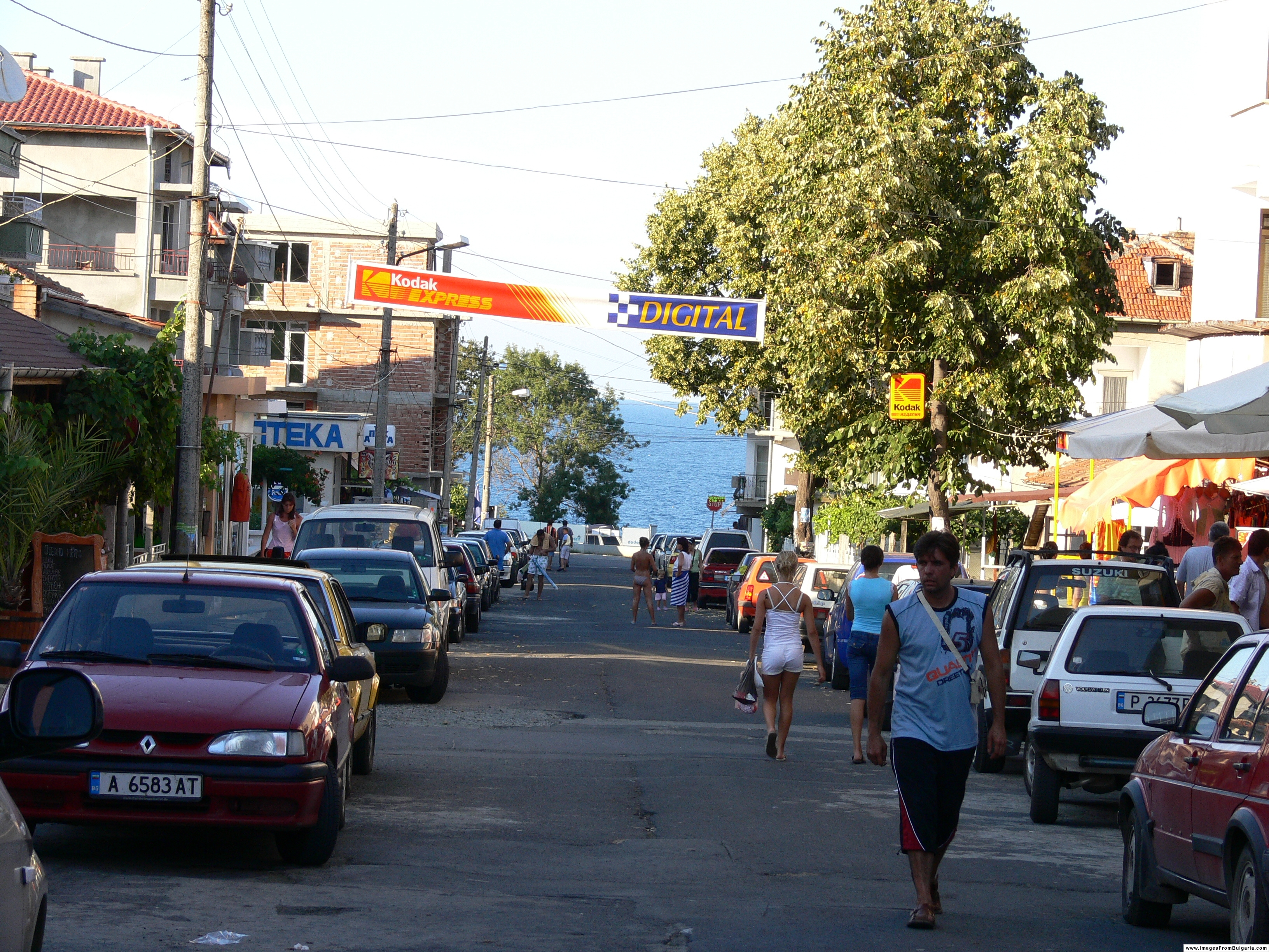 Kiten street (Burgas Province, Bulgaria)